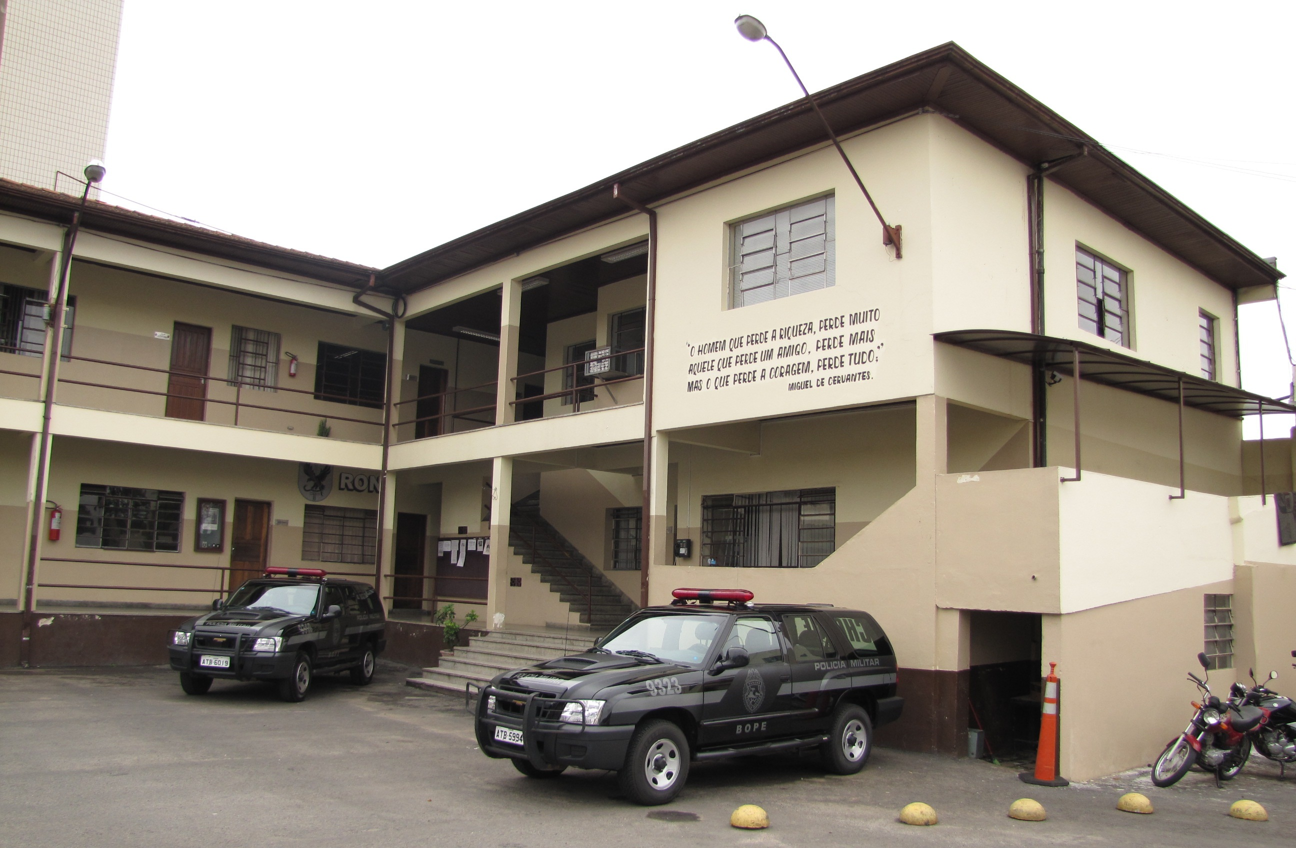 Headquarters of the BOPE (Special Operations Battalion) of the PMPR (Military Police of Parana), Brazil.